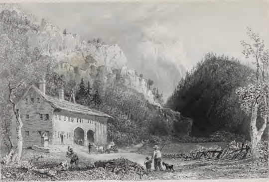 Drawing by W. H. Bartlett of the Notch House, Crawford Notch, New Hampshire